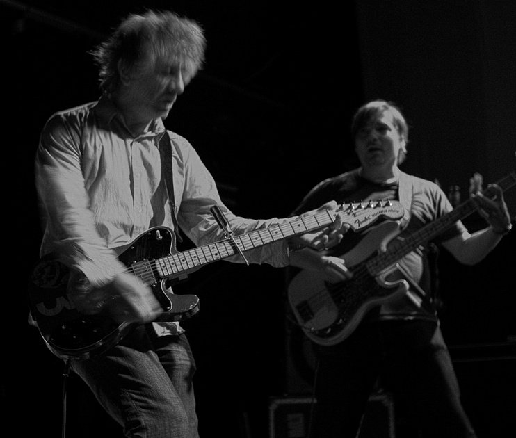 The hague december 2006